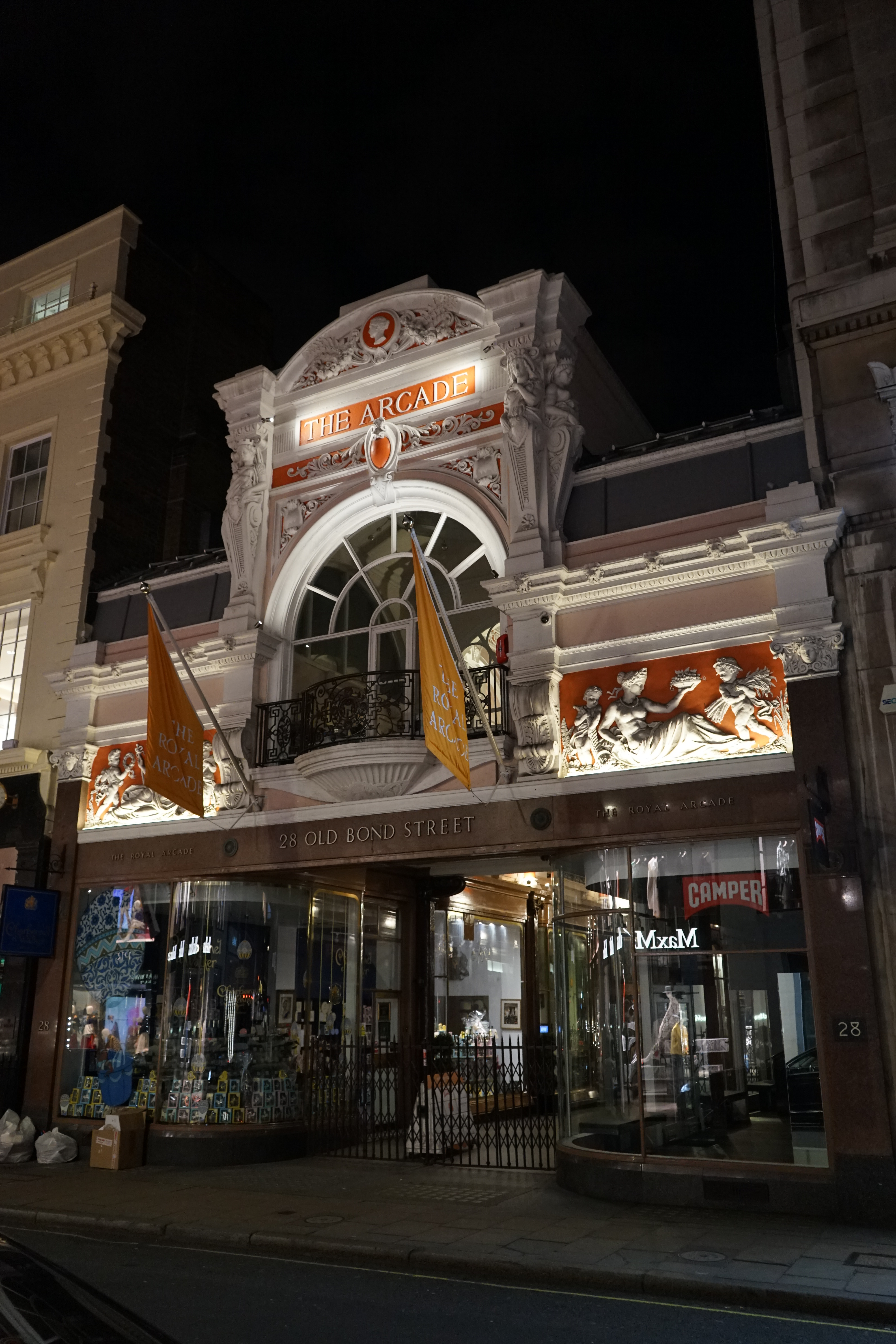 The Royal Arcade from Old Bond street during night.